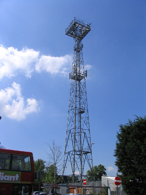 Floodlight Tower, LTE Depot, Cranham, Upmister. This depot is at the end of District Line underground service. This tower illuminates the whole site and can ne seen from miles around.